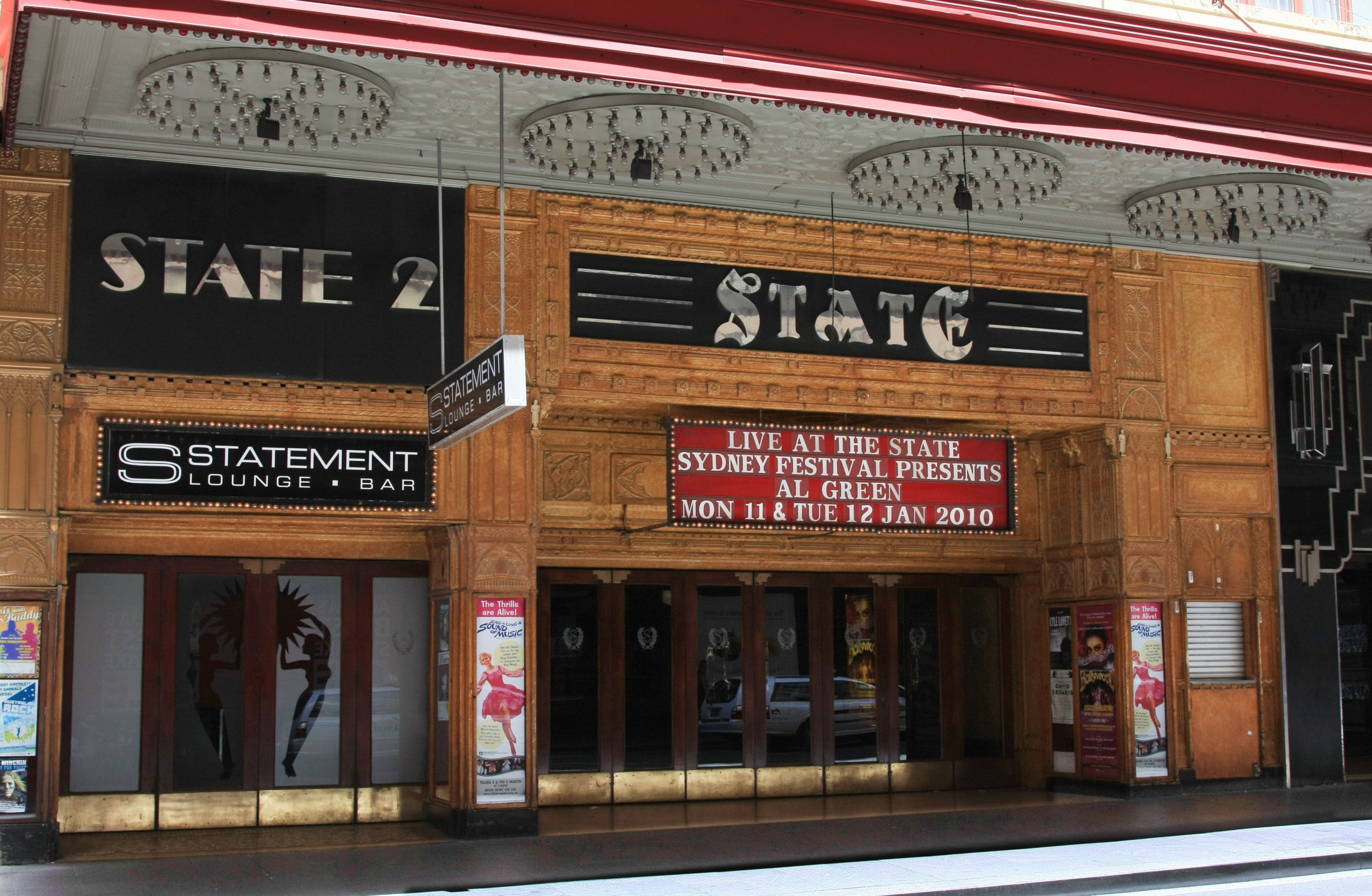 State Theatre Sydney